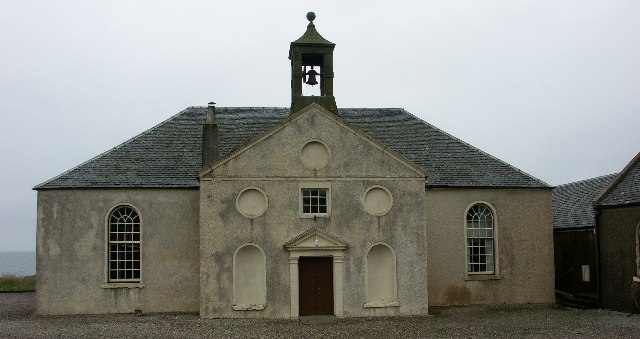 Killean Parish Church, A Chleit near Muasdale, Argyll.